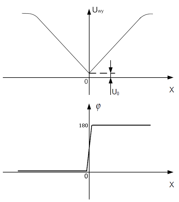 Charakterystyki przetwarzania i fazowa